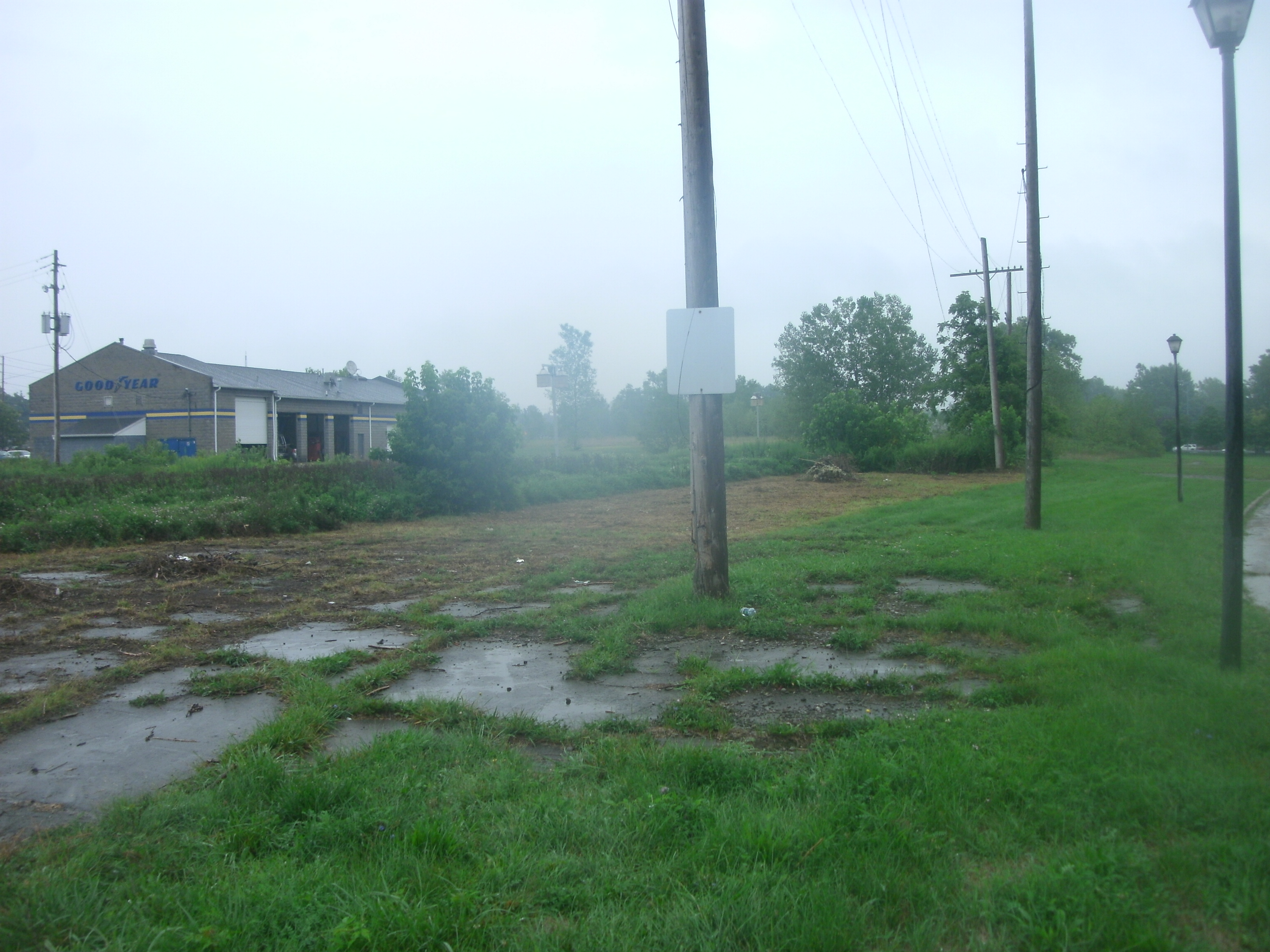 The former site of the former Warren combination freight/passenger depot used by the Erie Lackawanna Railroad after 1966.